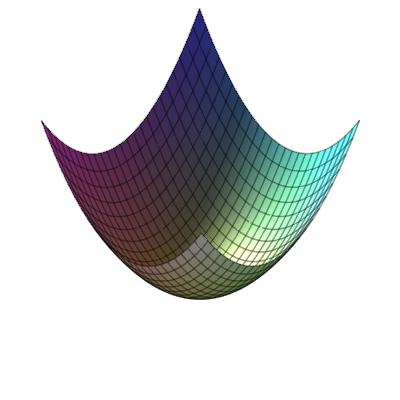 This file shows the result of the Maple command: plot3d(x^2+y^2, x = -1 .. 1, y = -1 .. 1)